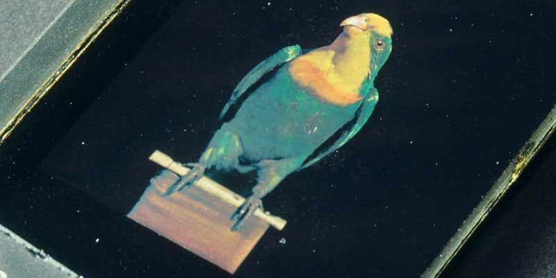 A circa 1899 colour photograph by Dr. Richard Neuhauss, made using the Gabriel Lippmann interference method of direct colour photography. Neuhauss was one of the foremost experimenters with this challenging and ultimately impractical process, which typically required exposures lasting several minutes. His taxidermy specimen of a Superb Parrot (Polytelis swainsonii) was a favourite test object. (NOTE: As indicated by its file name, when uploaded, this image was misidentified as having been made by Lippmann himself, and misdated to 1891, the year the process was introduced. For confirmation of the true authorship, see the uncropped reproduction of this or a virtually identical specimen, showing its contemporary identifying label, at (image #90763730).)